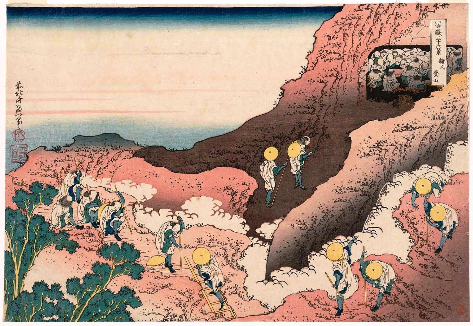 Japanese wood print "Ukiyoe". People Climbing the Mountain (Shojin tozan), from the series Thirty-six Views of Mount Fuji (Fugaku sanjûrokkei). Japanese, Edo period, about 1830–31 (Tenpô 1–2), Artist Katsushika Hokusai, Japanese, 1760–1849, Publisher Nishimuraya Yohachi (Eijudô)